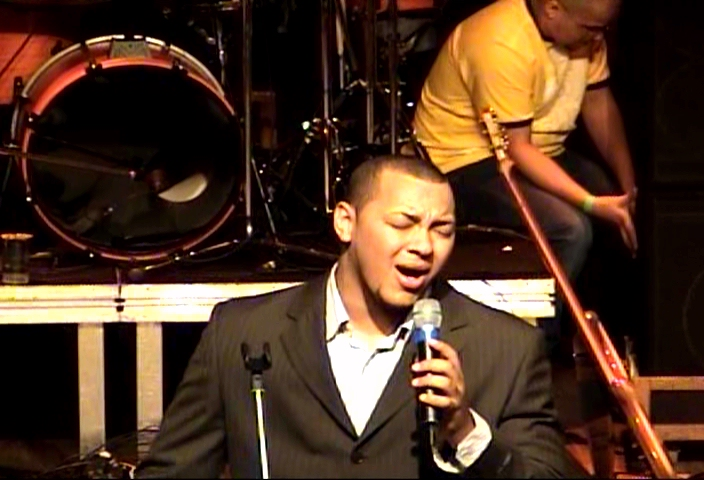 Ton Carfi - Show